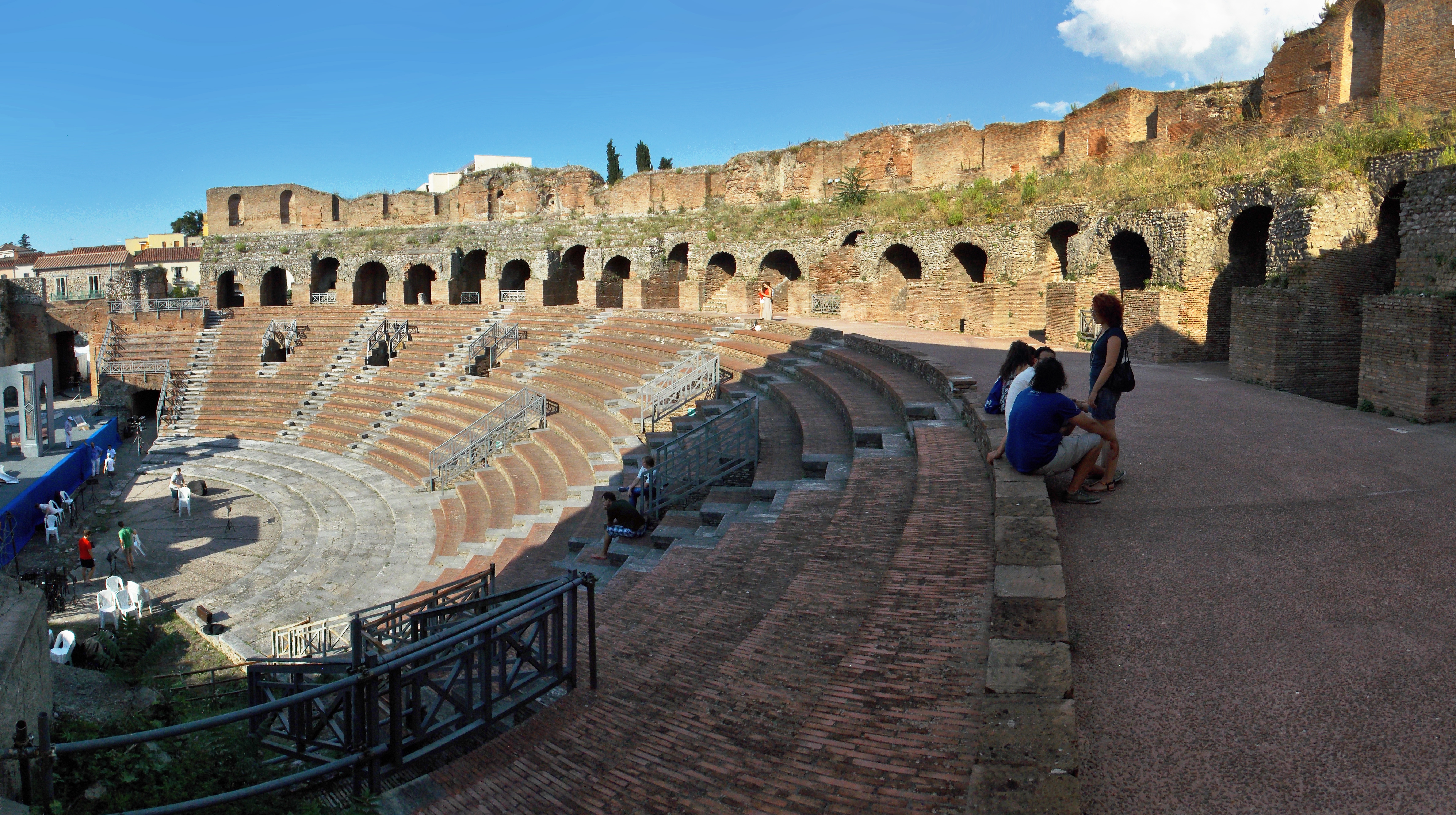 Roman theatre's cavea, Benevento